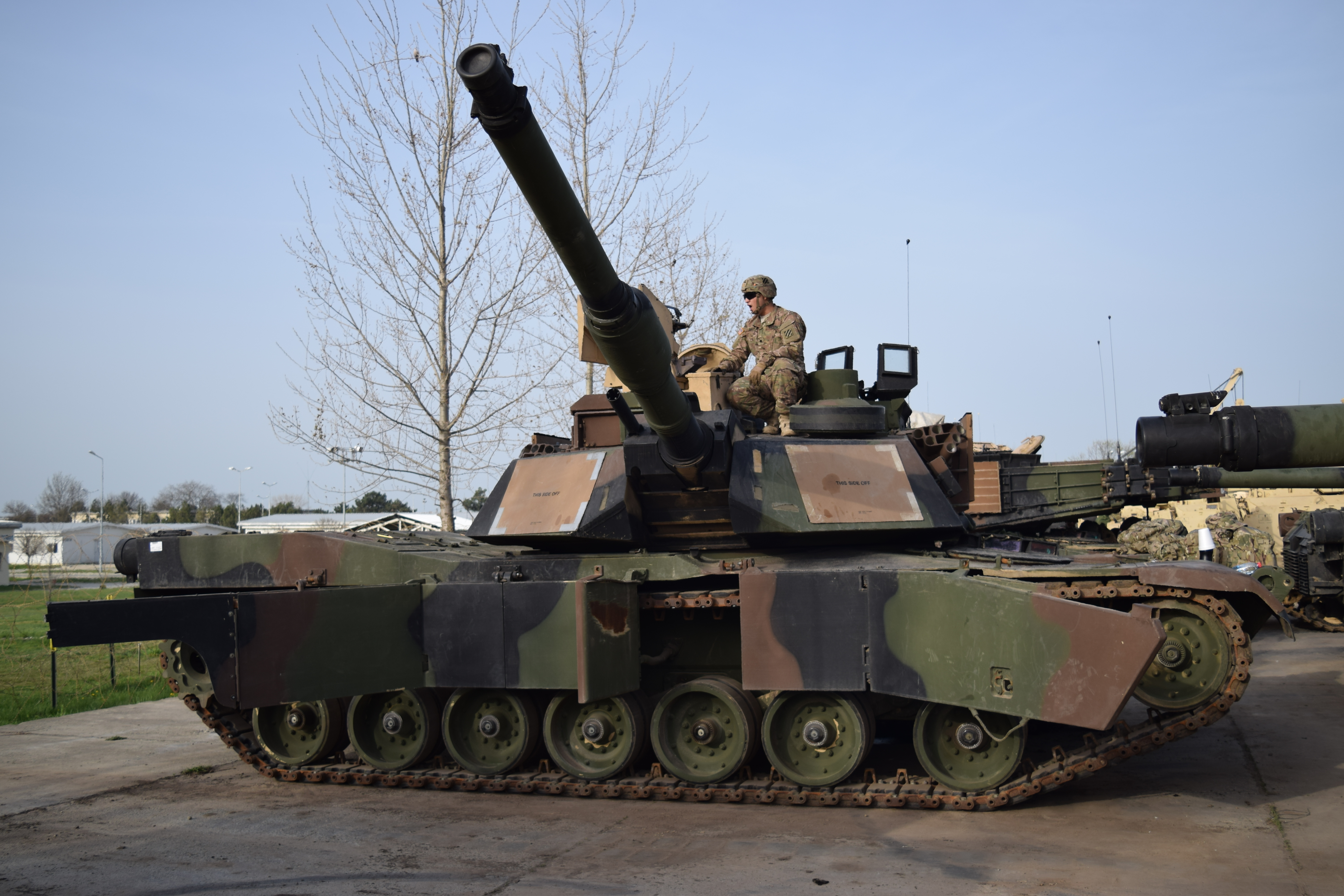 Soldiers from 1st Armored Brigade Combat Team, 3rd Infantry Division perform Preventive Maintenance Checks and Services on a M1A2 Abrams Main Battle Tank as they draw equipment from the European Activity Set at Mihail Kogălniceanu Air Base, Romania April 7. Soldiers from the brigade will be drawing EAS equipment at locations in Germany, Lithuania, Bulgaria and Romania in preparation for Exercise Anakonda 16. Anakonda 16 is a Polish-led, joint, multinational exercise taking place in Poland from June 7-17. It involves more than 25,000 participants from 24 nations and supports assurance and deterrence measures by demonstrating Allied defense capabilities to deploy, mass and sustain combat power. Unit: 1st Armor Brigade Combat Team, 3rd Infantry Division